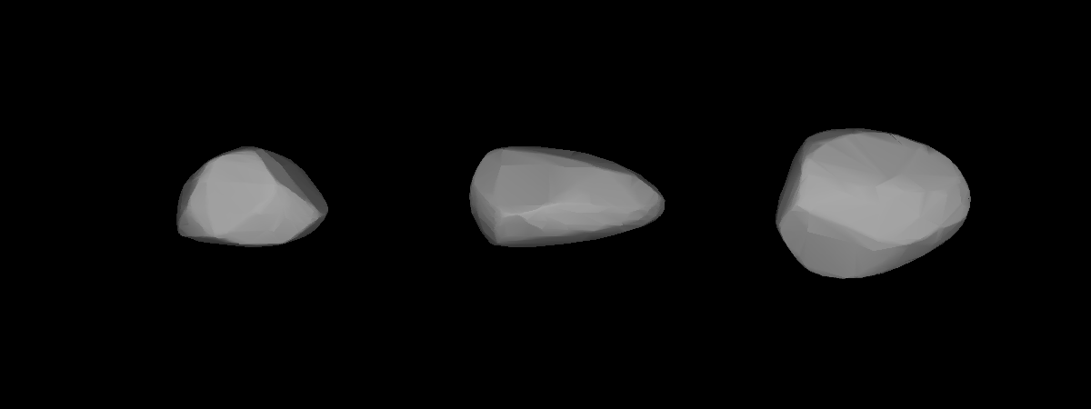 A three-dimensional model of 291 Alice that was computed using light curve inversion techniques.